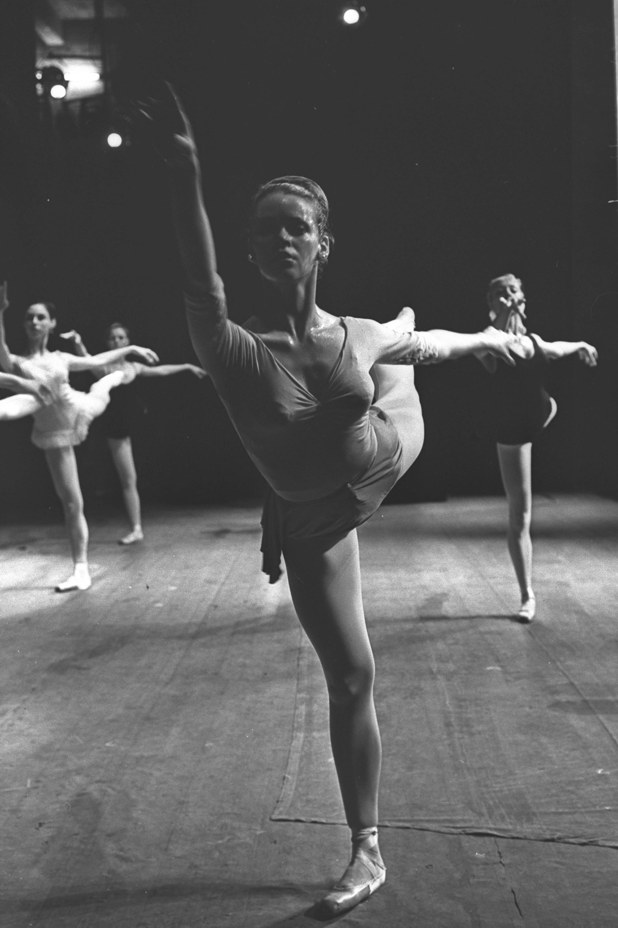 Members of the New York City Ballet giving a lecture demonstration at the Habima Theatre in Tel Aviv.